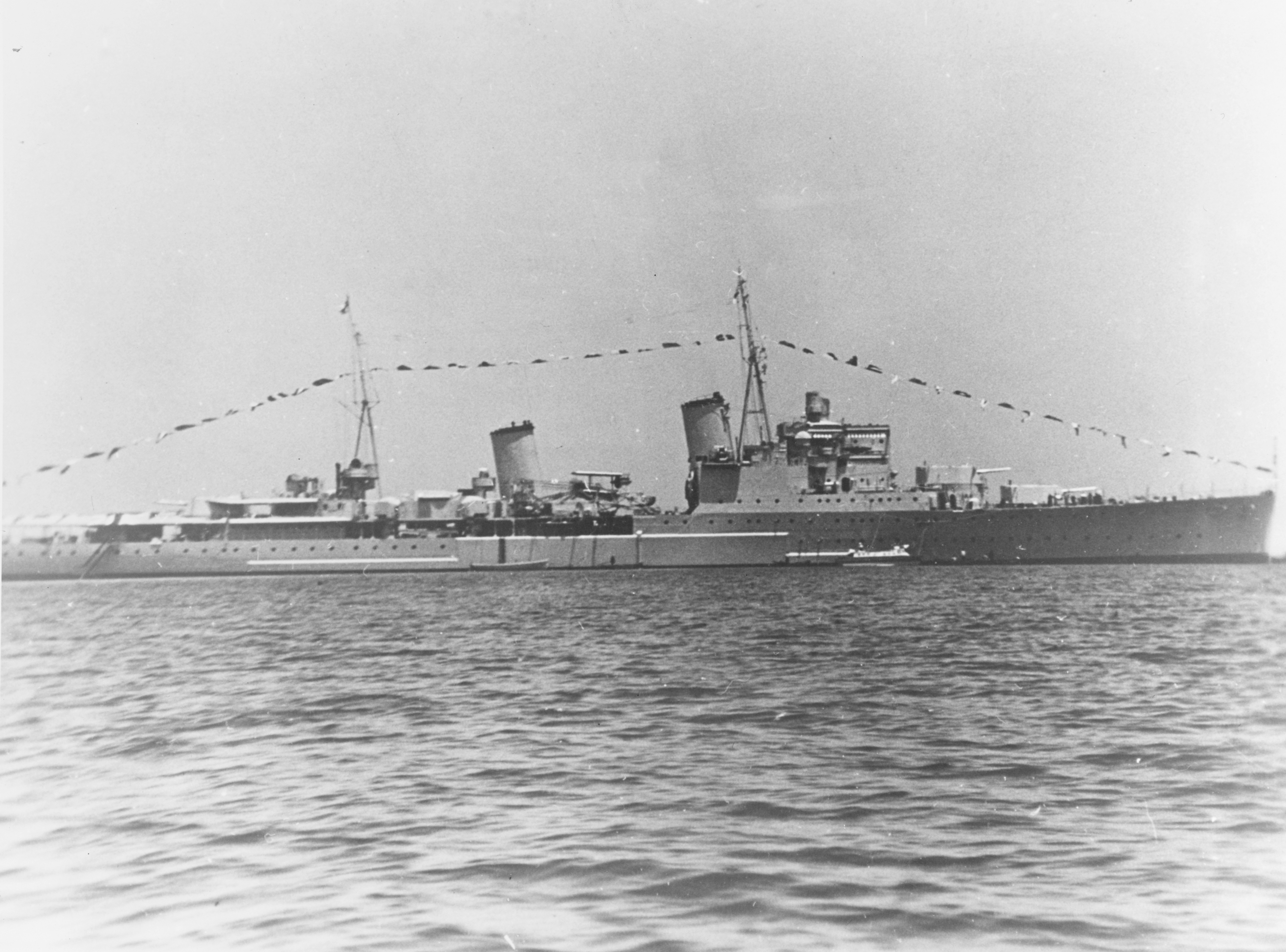 The Royal Navy light cruiser HMS Birmingham (C19), circa in 1938. Note: the date given is 1936, but Birmingham was commissioned on 18 November 1937.